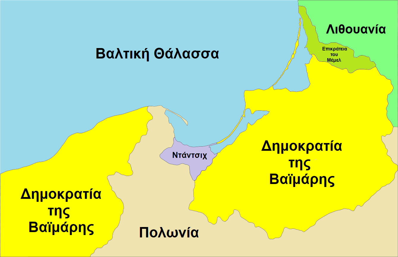 Map of the Gdańsk Bay in 1939. The Memel Territory was retransfered from Lithuania to Germany in March 1939.